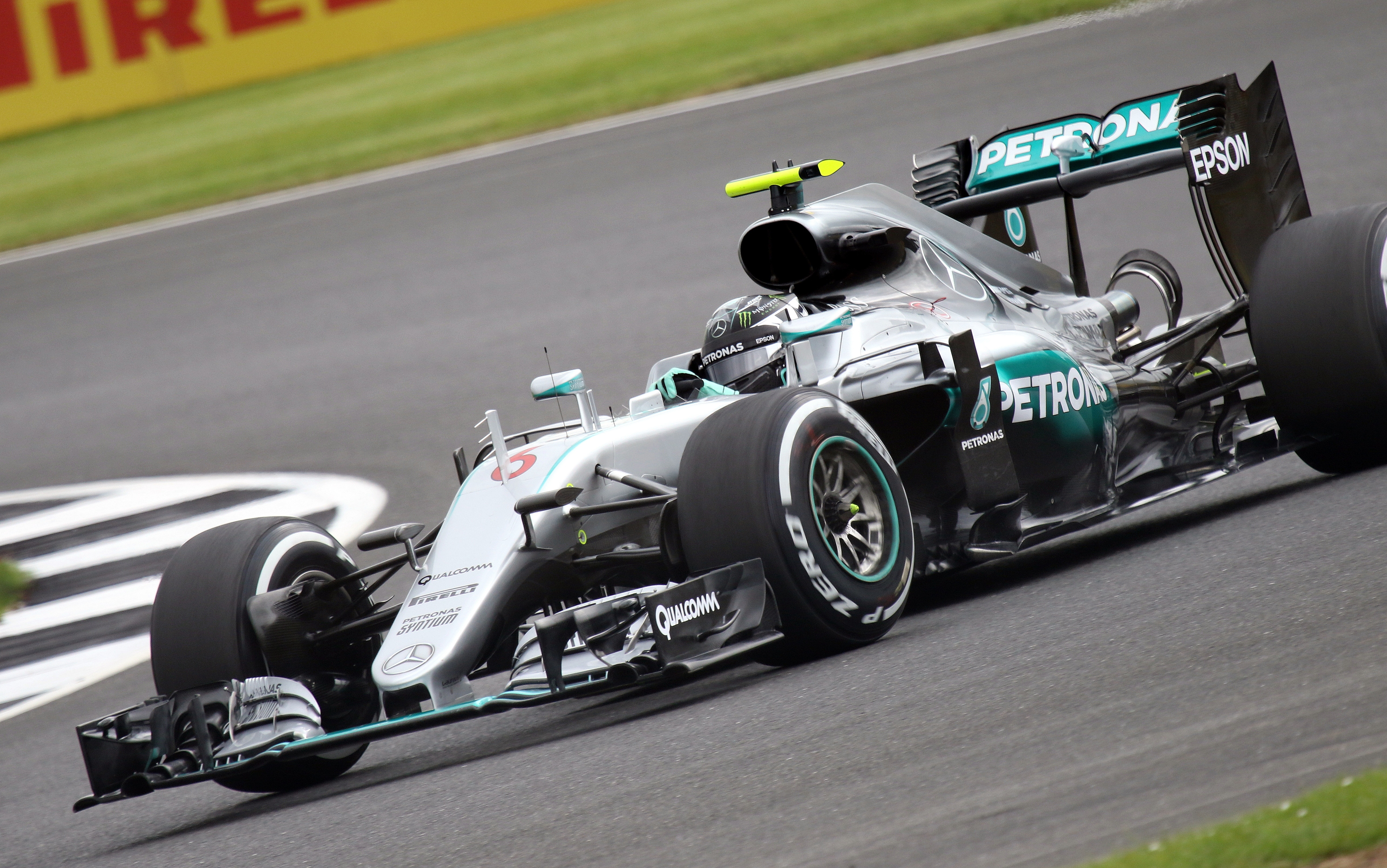 Nico Rosberg during free practice for the 2016 British Grand Prix